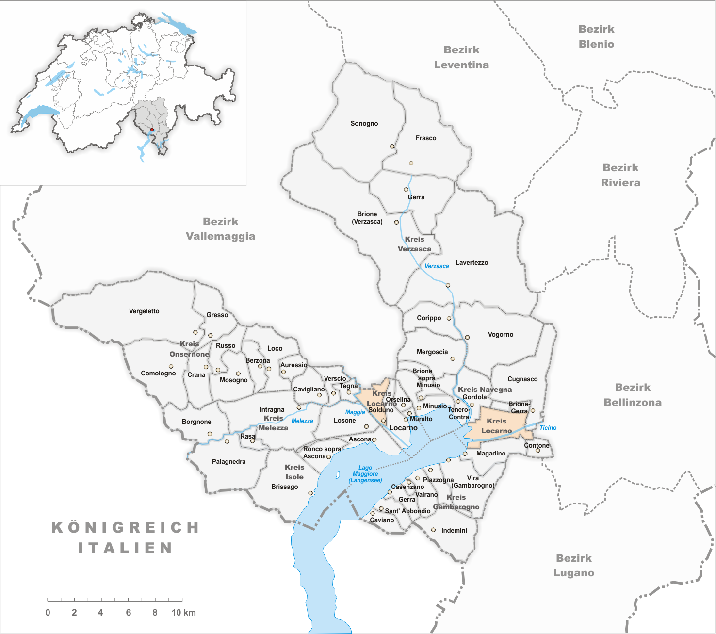 Municipality Solduno